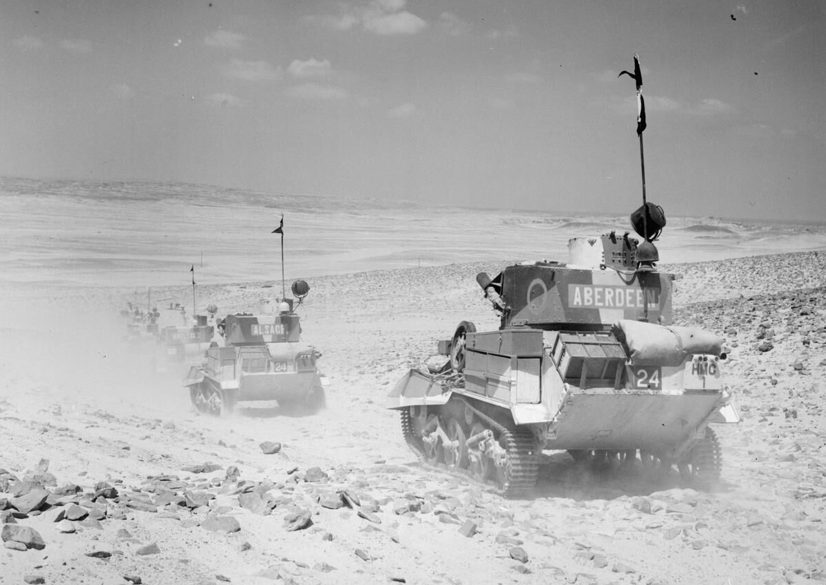 The British Army in North Africa 1940 MK VIB Light Tanks of 7th Armoured Division on patrol in the desert, 2 August 1940.